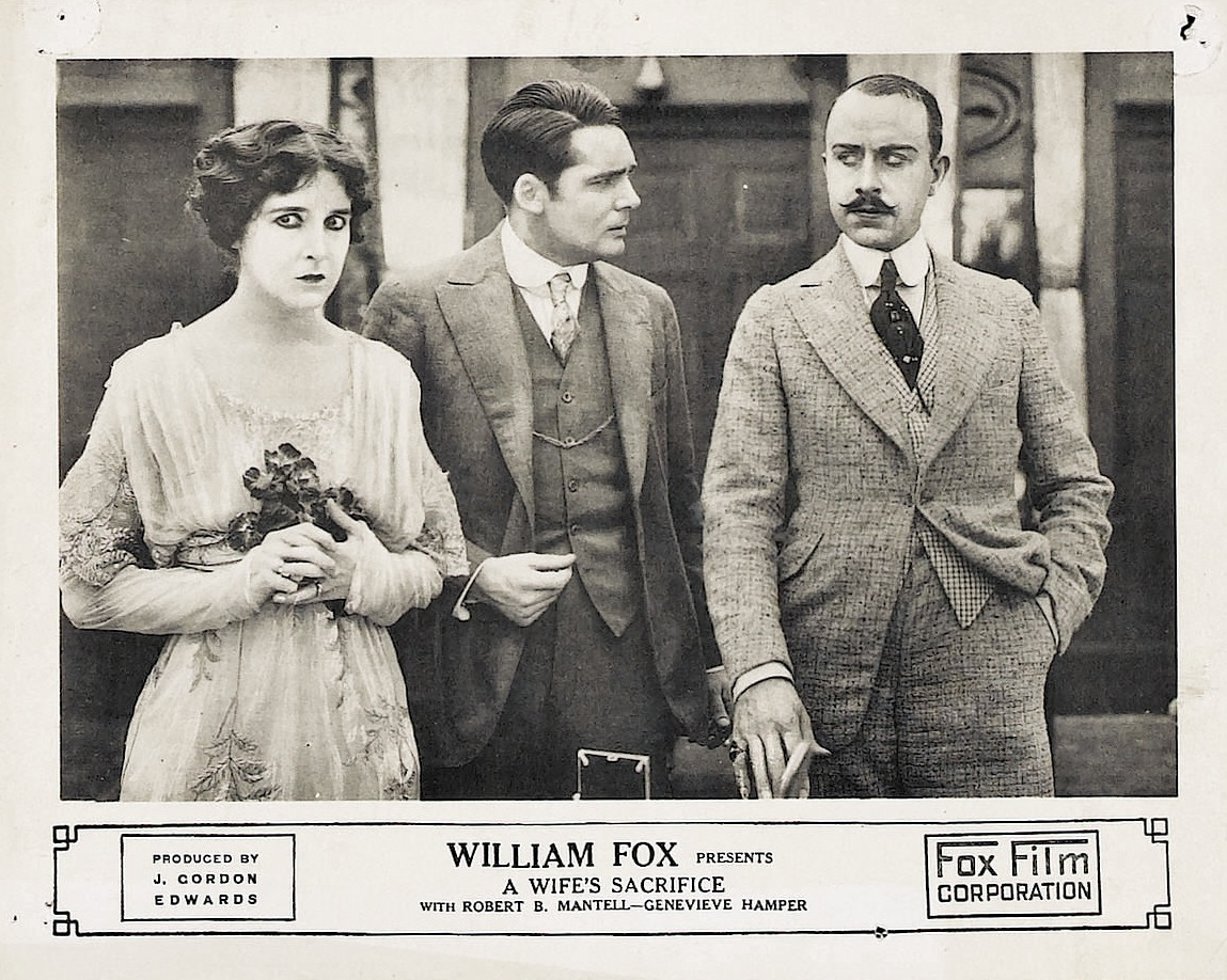 A Wife's Sacrifice is the name of a lost 1916 American silent drama film produced and distributed by Fox Film Corporation. This is a lobby card for the film with Genevieve Hamper and Robert B. Mantell.